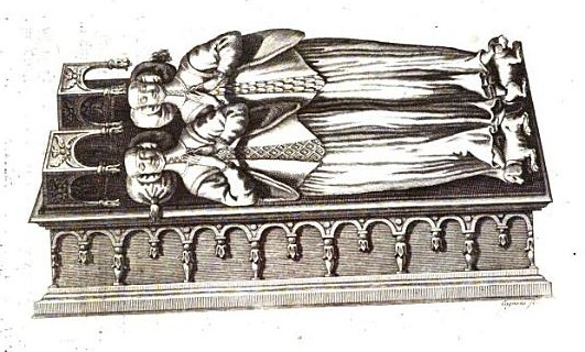 Joan and Blanche in Eglise Cordeliers